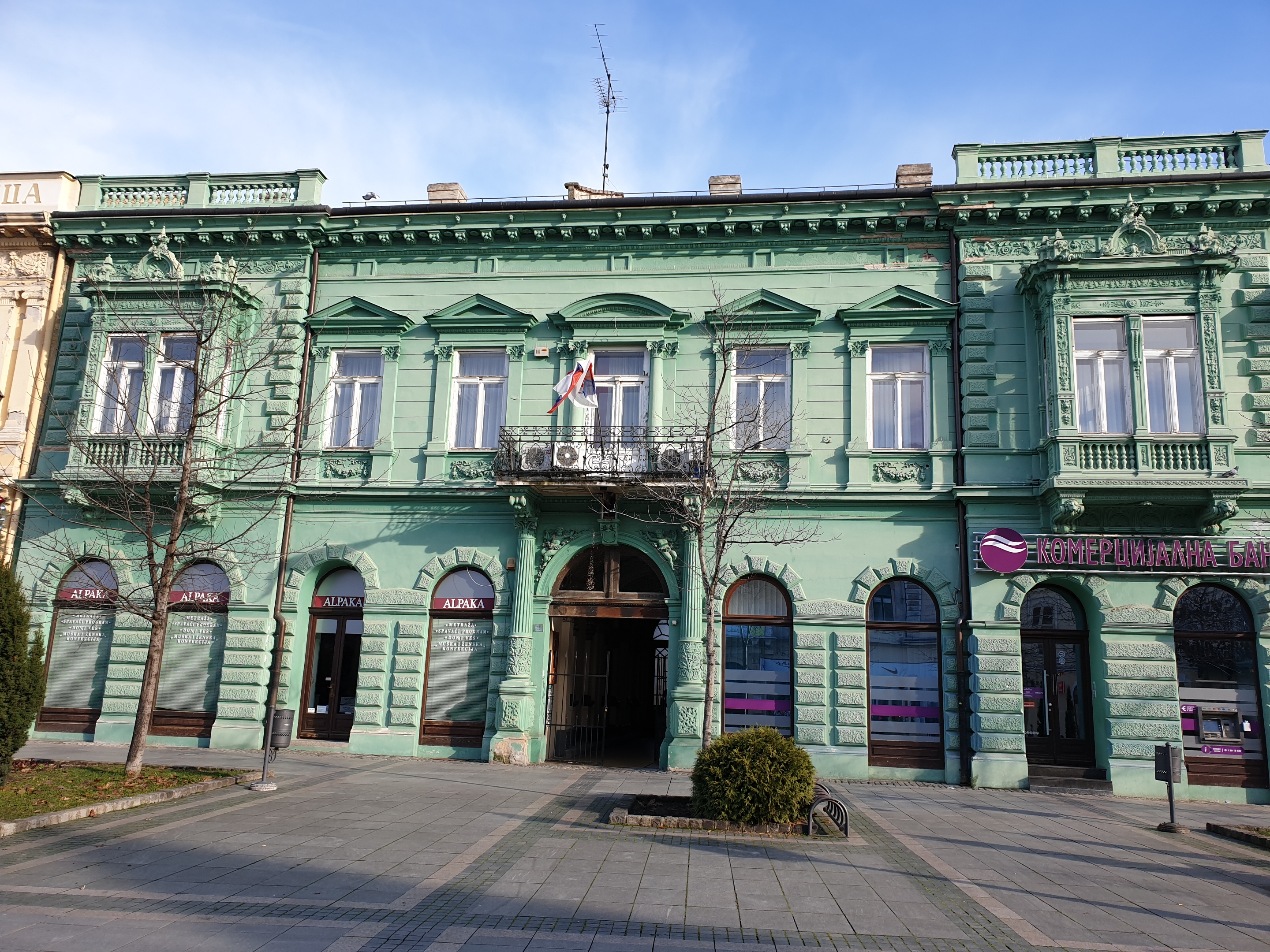 Semzeova palata